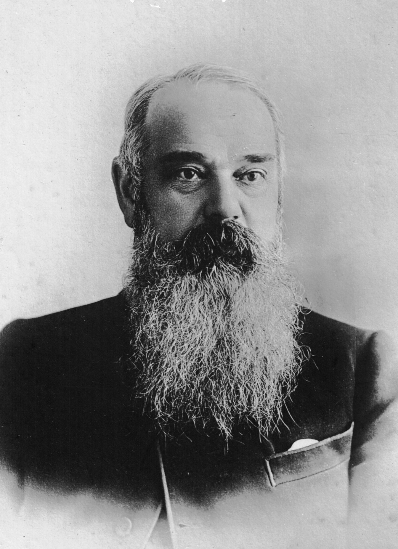 Photo of Henry Goulstone